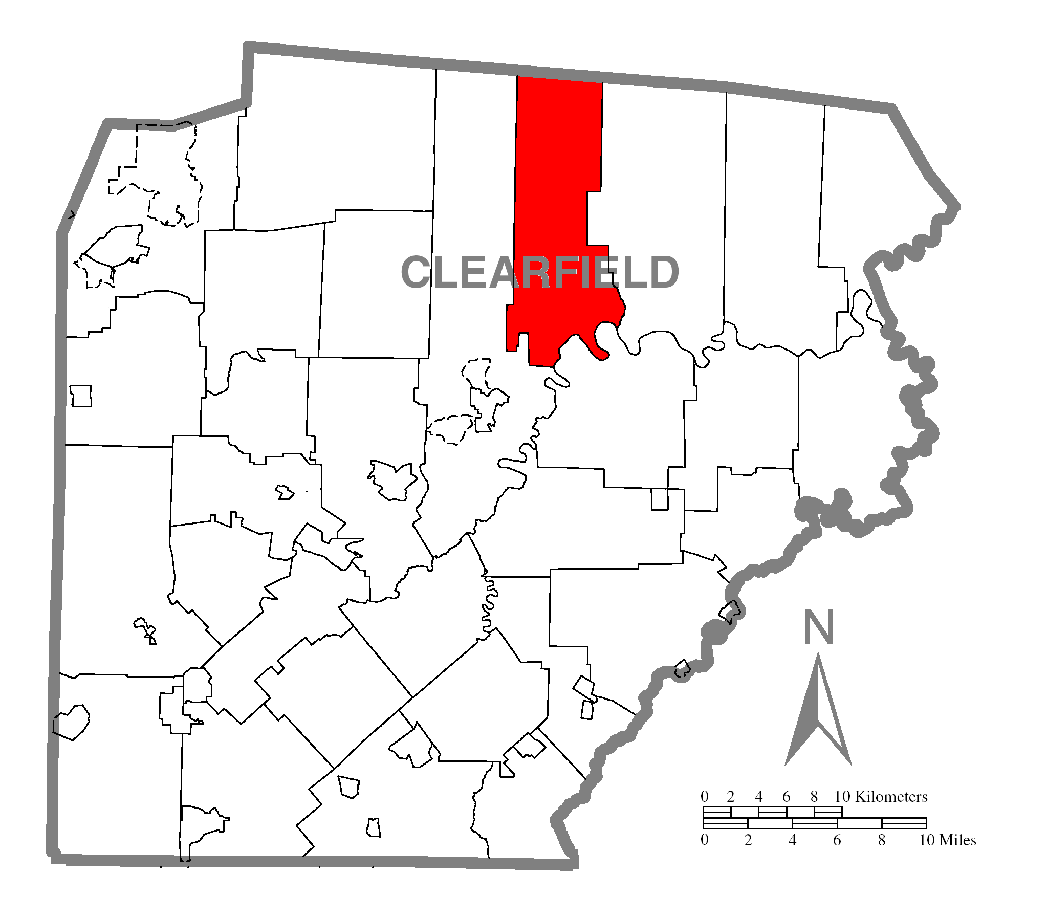 A map of Clearfield County showing Goshen Township, Pennsylvania (alternate) highlighted on the map.